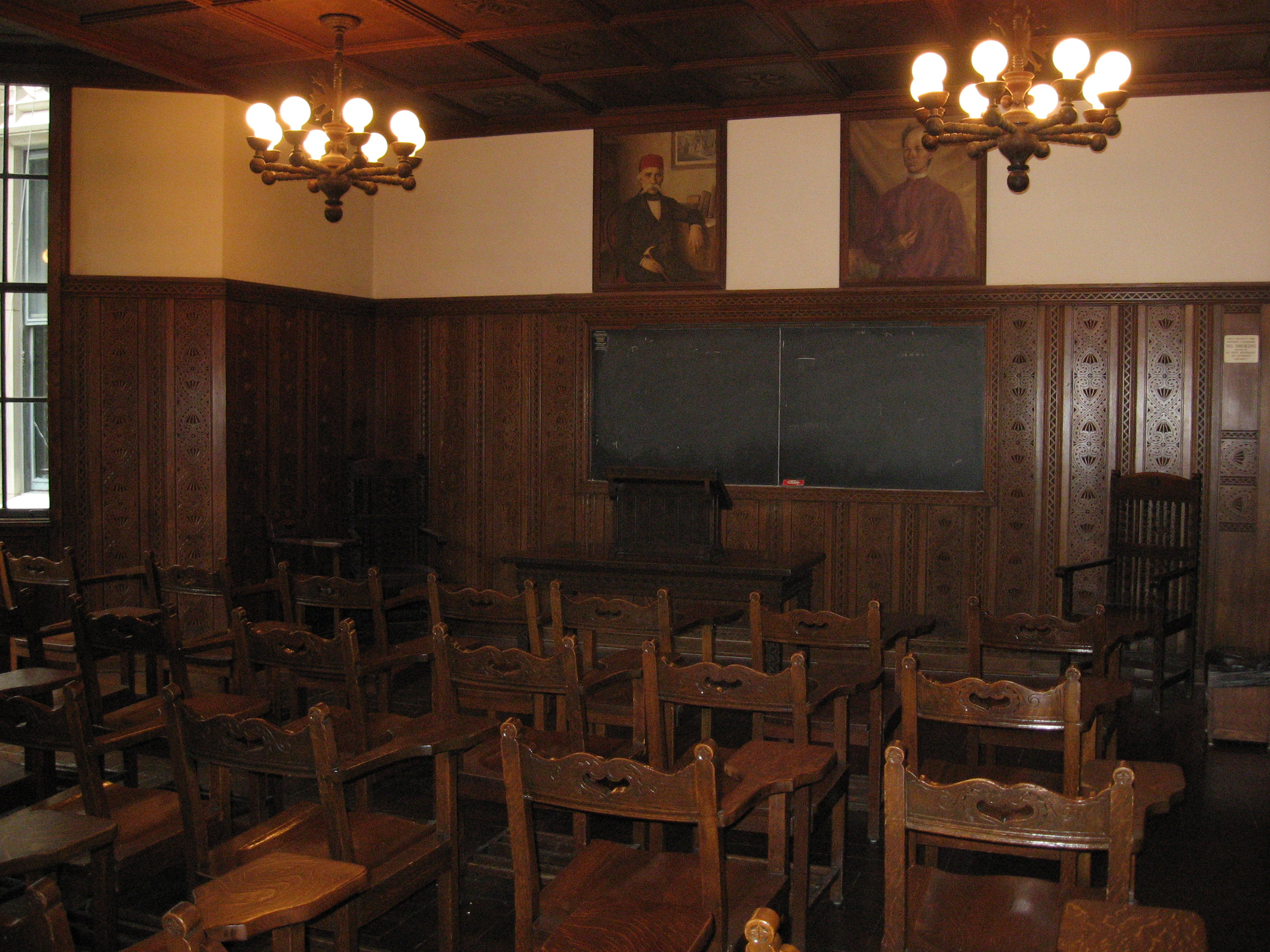 Yugoslav Nationality Room of the Nationality Rooms at the University of Pittsburgh's Cathedral of Learning